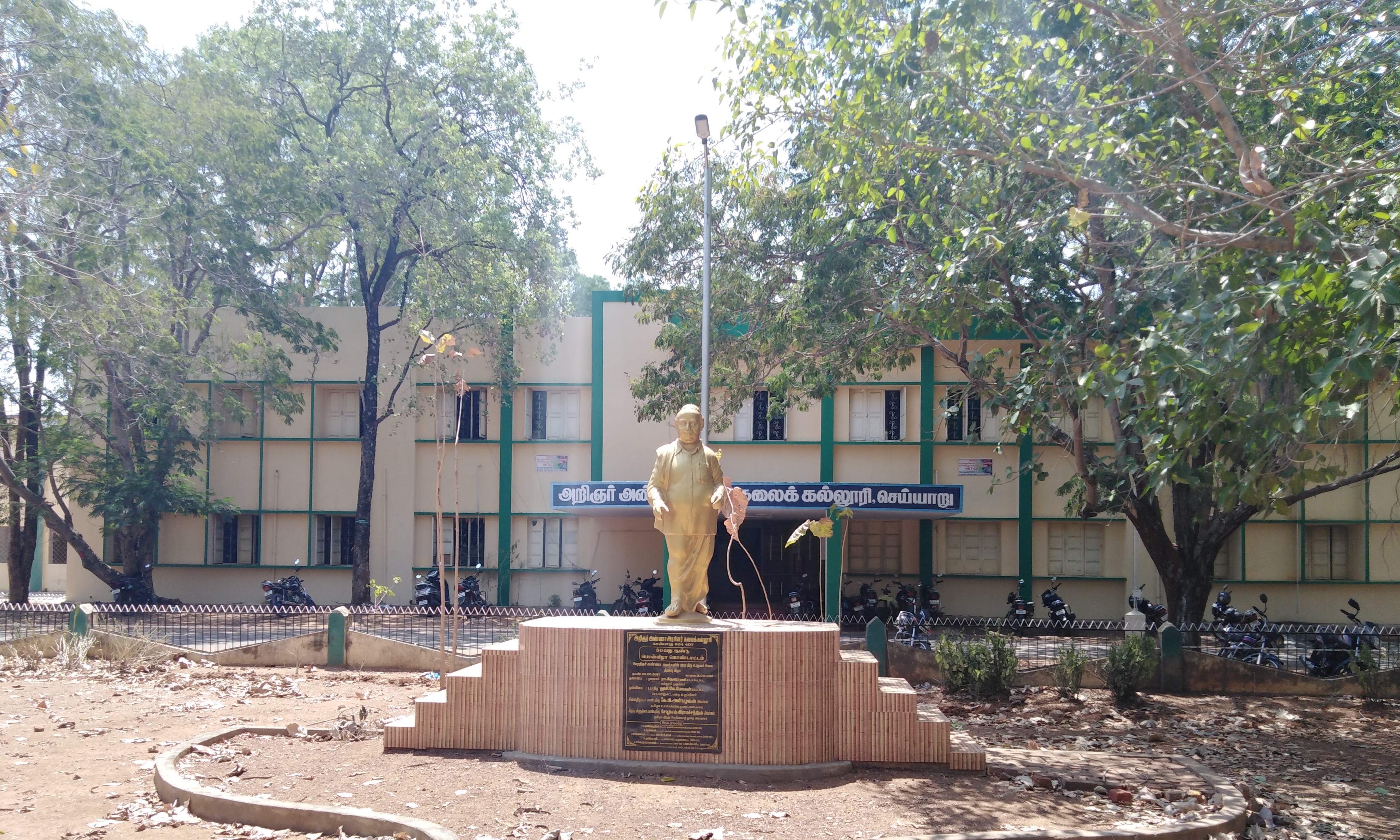 Government Arts college